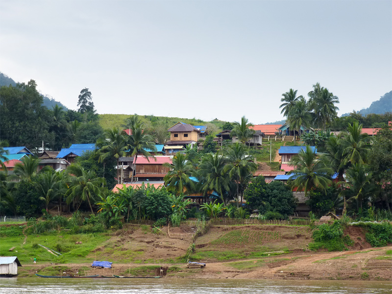 Village on the bank of the Mekong River, Bokeo Province, Laos.